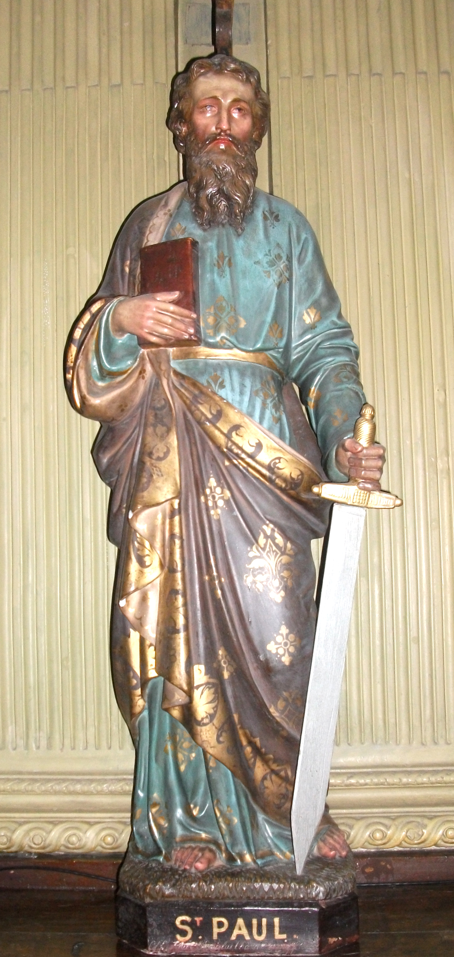 Tbilisi St. Peter-Paul Catholic Church